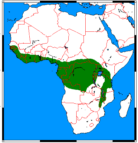 African Palm Civet (Nandinia binotata) range map, made by me with help of Map depending on the range map at IUCN red list. Includes colonial borders.